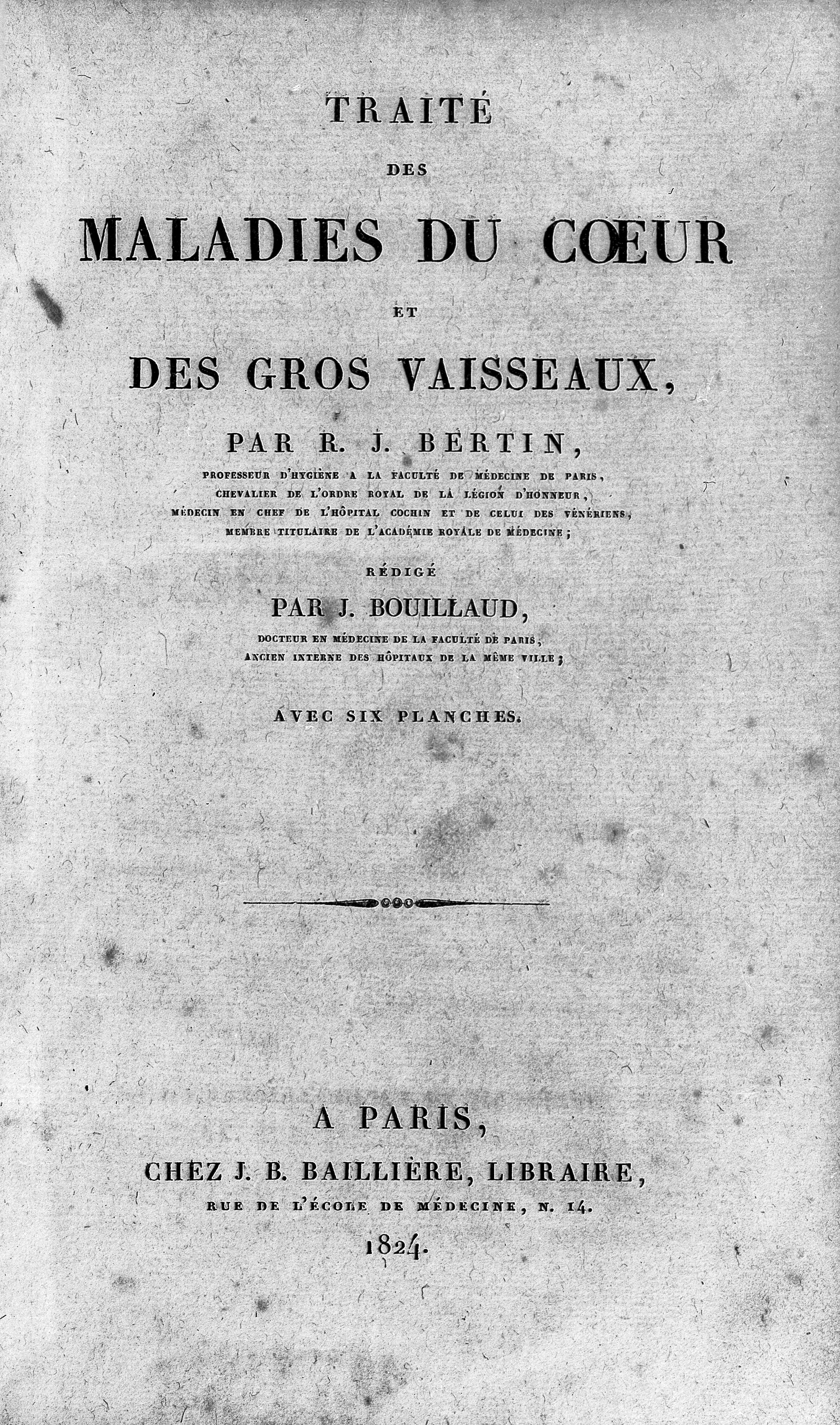 Rare Books Keywords: R. J. Bertin; maritime medicine; Naval Medicine